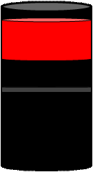 Funnel of the Guion Line's ships, used on transatlantic ocean liners between 1866 and 1894